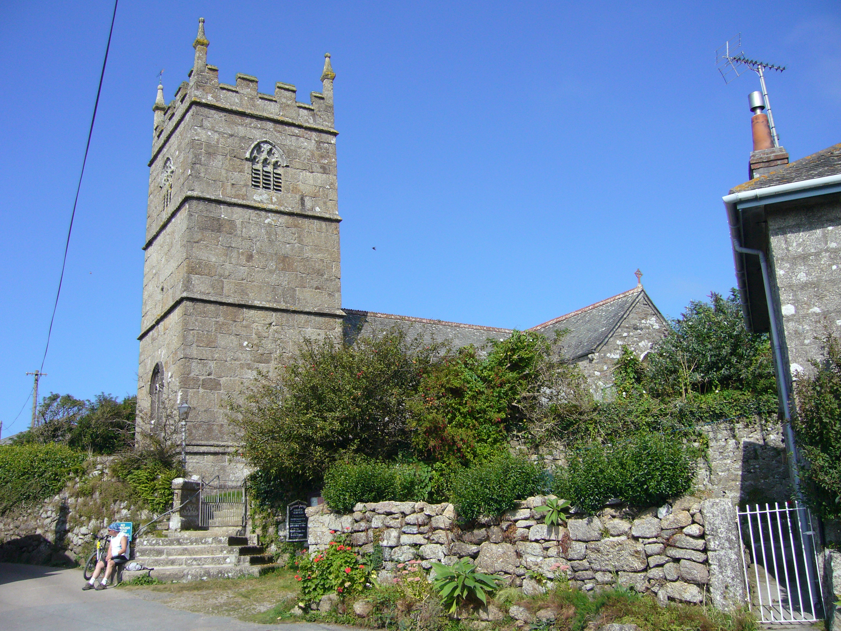 Zennor church. Photographed in September 2007. Required attribution is: Photo by Tom Oates.